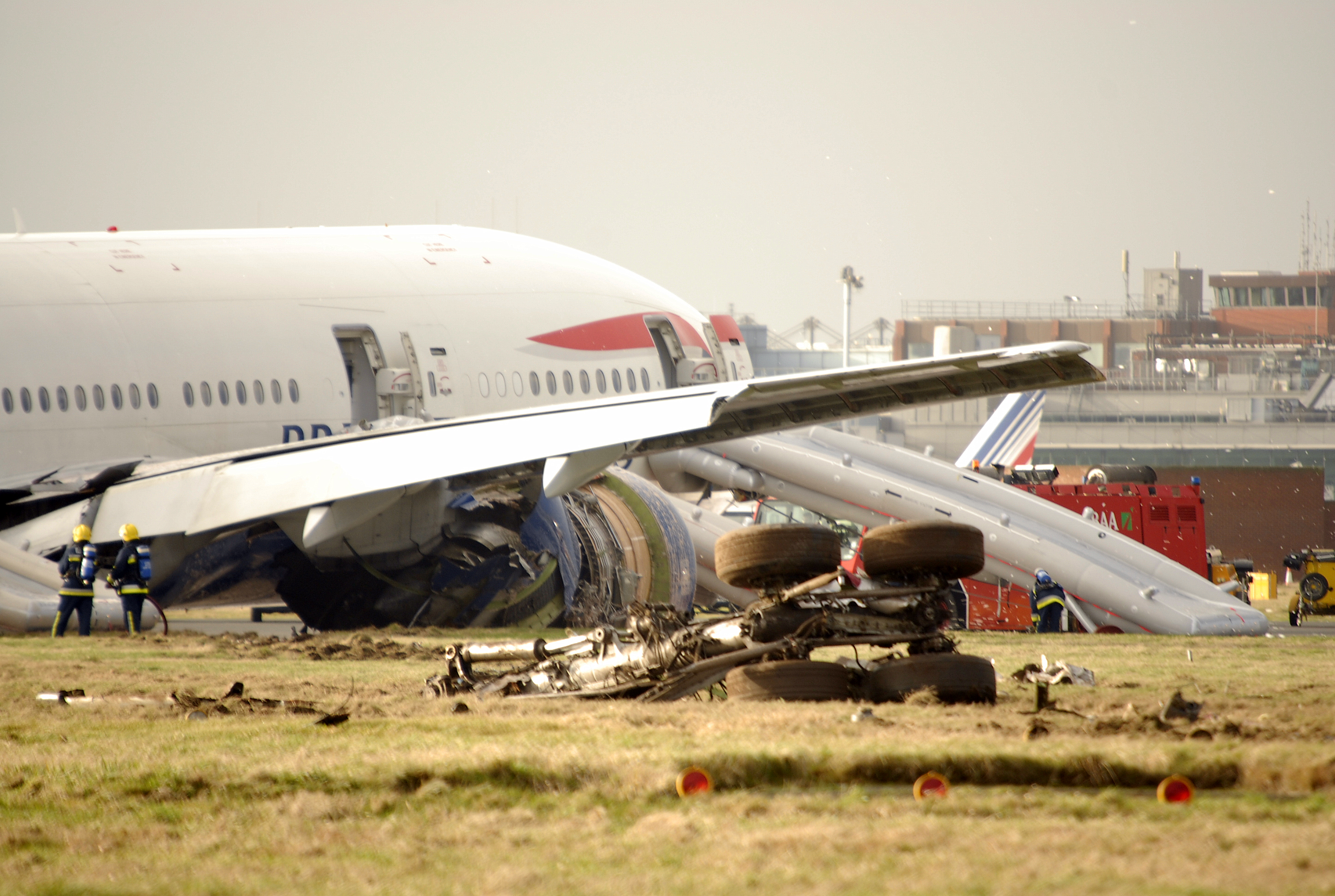 Photo of the British Airways Flight BA38 crash in London Heathrow (LHR).